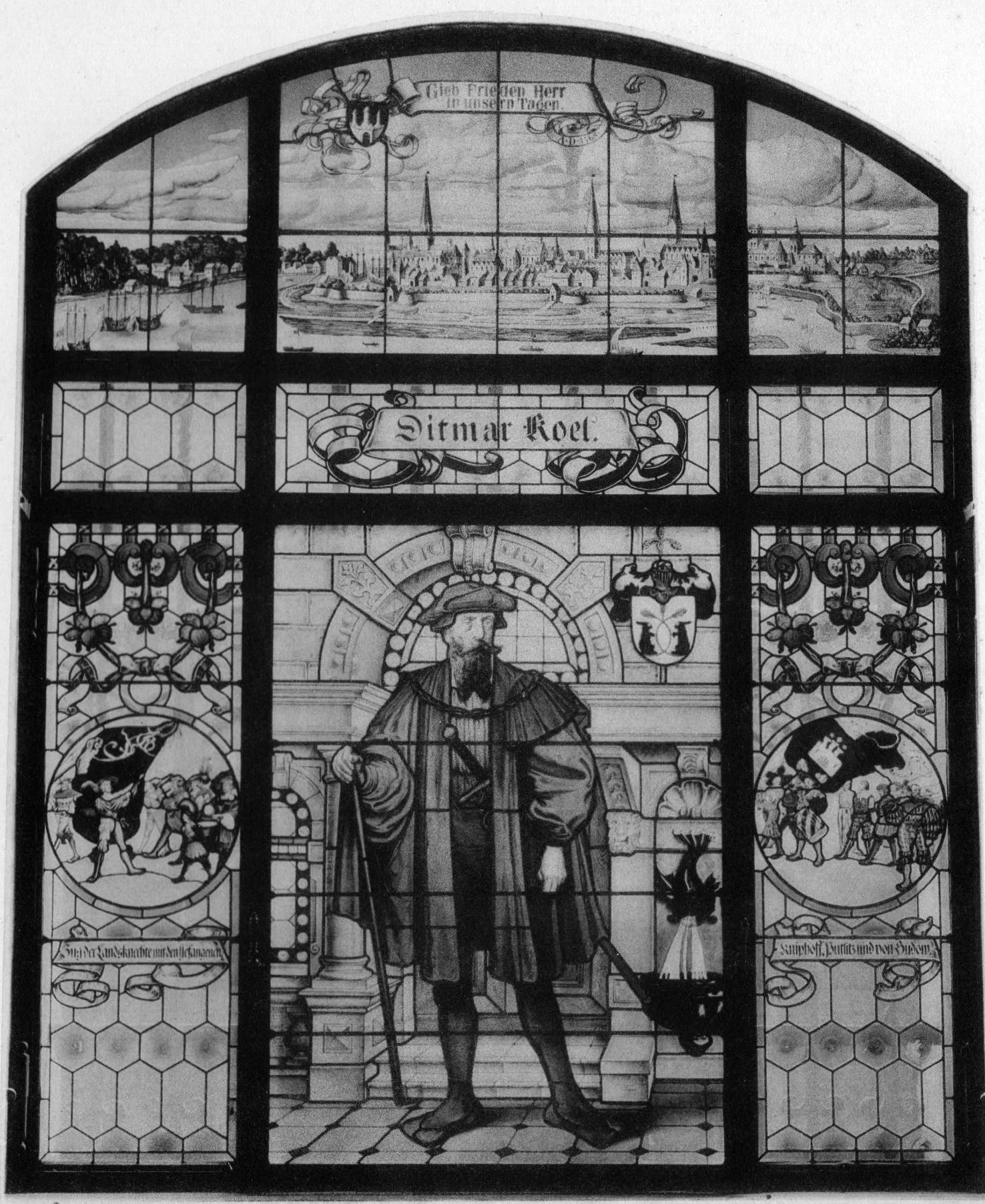 Window drawing in the cellar of the Hamburg town hall, created 1895, destroyed during World War II.